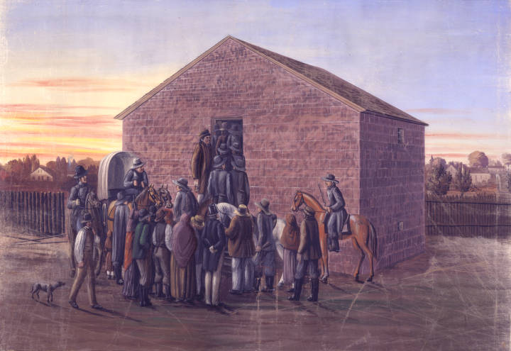 "Liberty Jail", part of Mormon Panorama by C.C.A. Christensen.